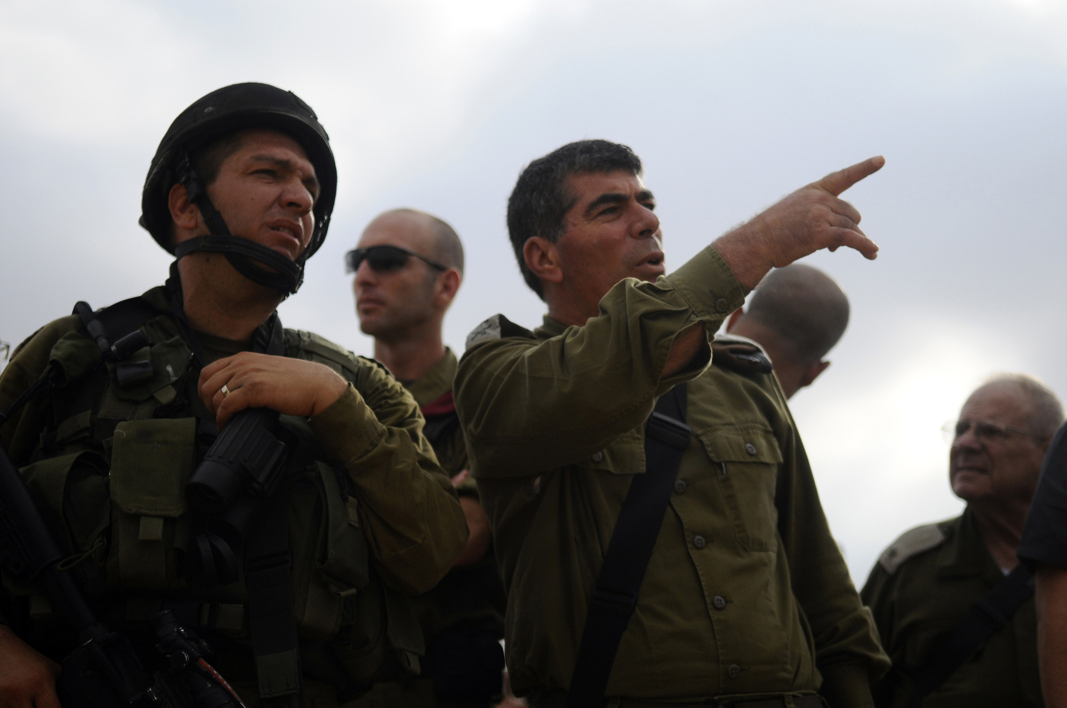 September 21, 2010. The Chief of the General Staff, Lt. Gen. Gabi Ashkenazi, visited the Paratroopers Brigade during a military exercise in southern Israel. The Chief of the General Staff was joined by OC Central Command, Maj. Gen. Avi Mizrahi, Commander of the Ground Forces, Maj. Gen. Sami Turjeman, and Commander of the 98th Paratroopers Division, Brig. Gen. Roni Numa. The Israel Defense Forces Facebook • blog • Twitter